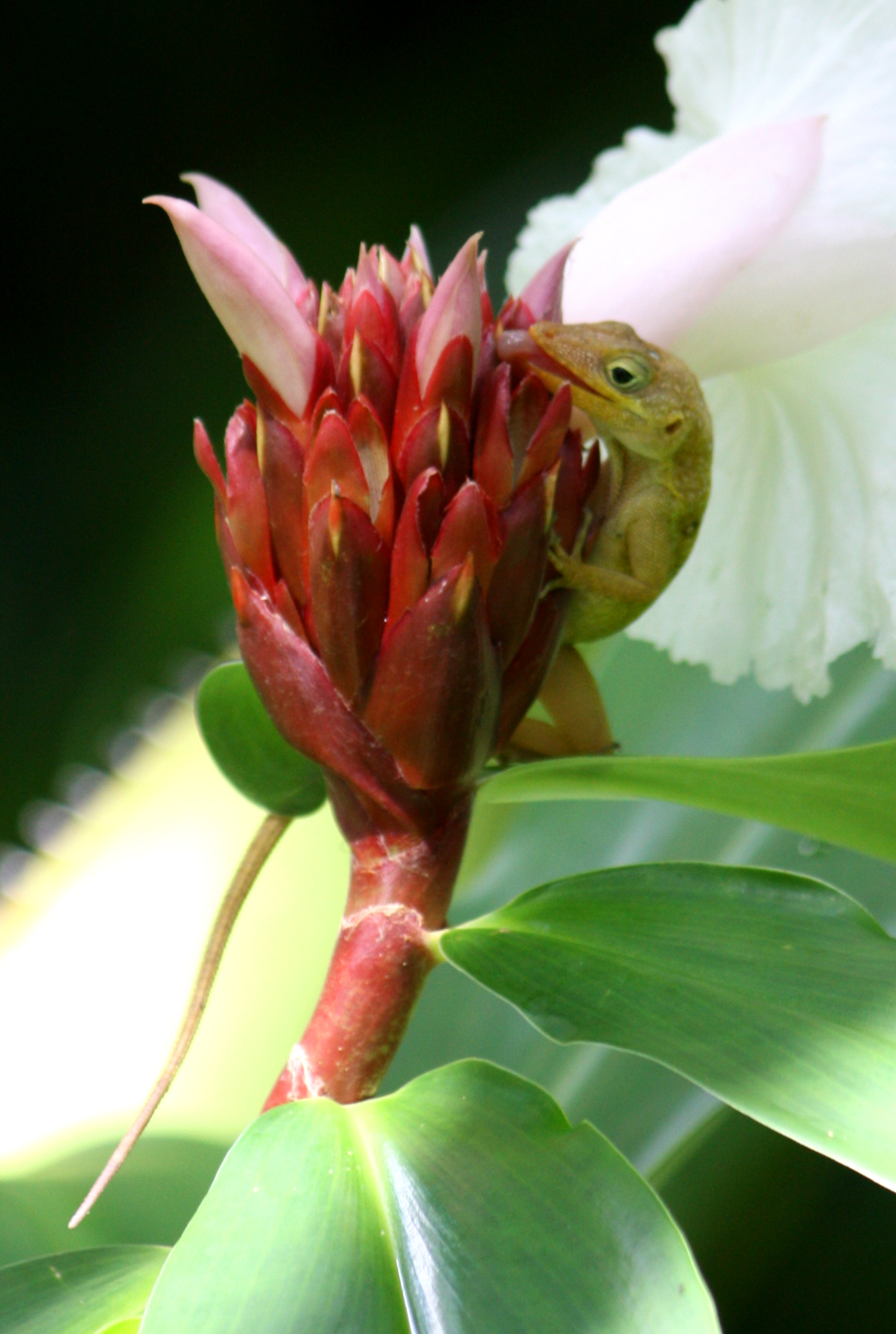 Male Dominican Anole (Anolis oculatus) licking a flower. South Caribbean ecotype (A. o. oculatus). Dominica Botanical Gardens, Roseau, Dominica.